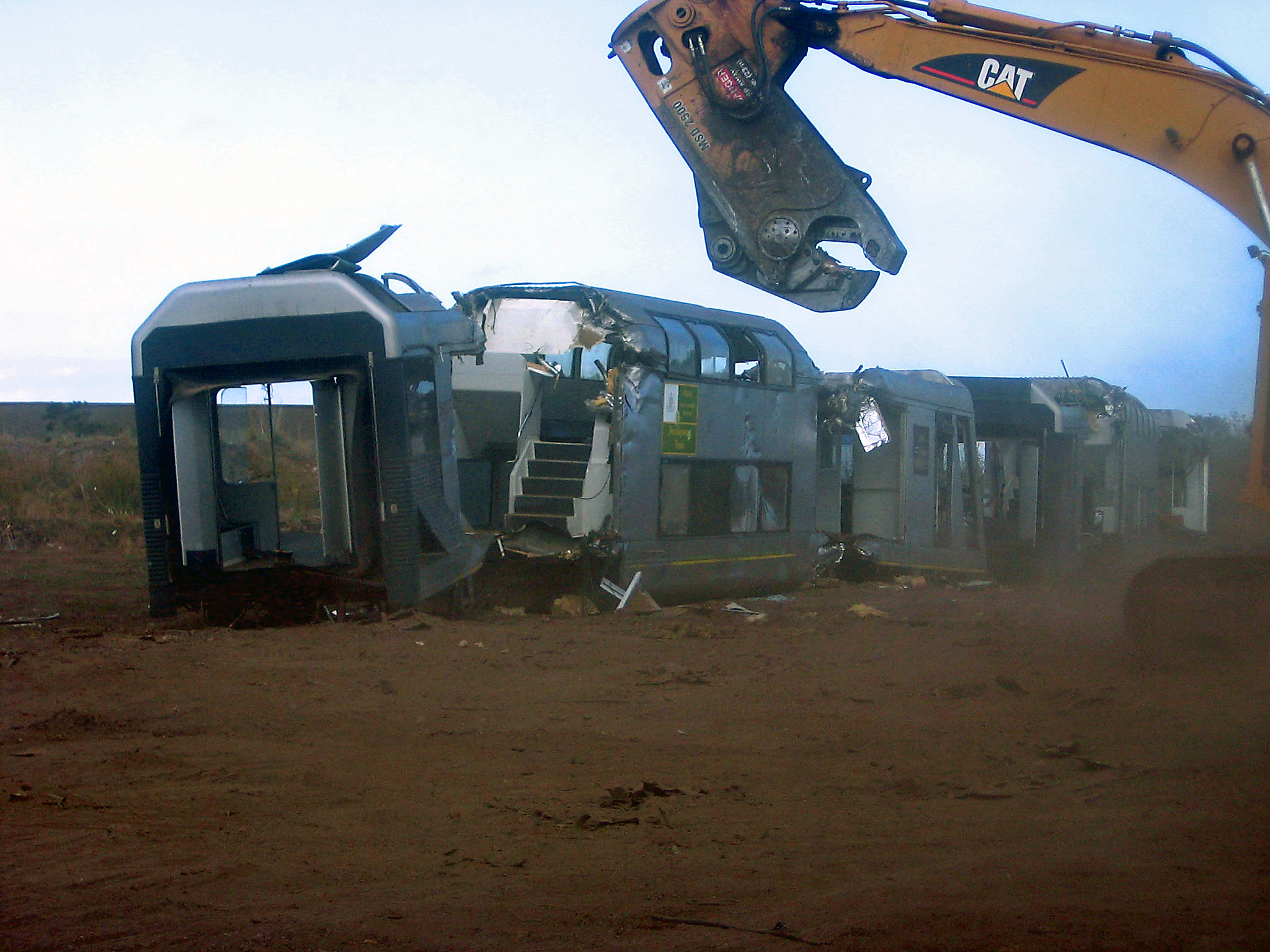 4D cars 6000T & 5000M have only minutes left as the cutter moves in at Brooklyn 2006.